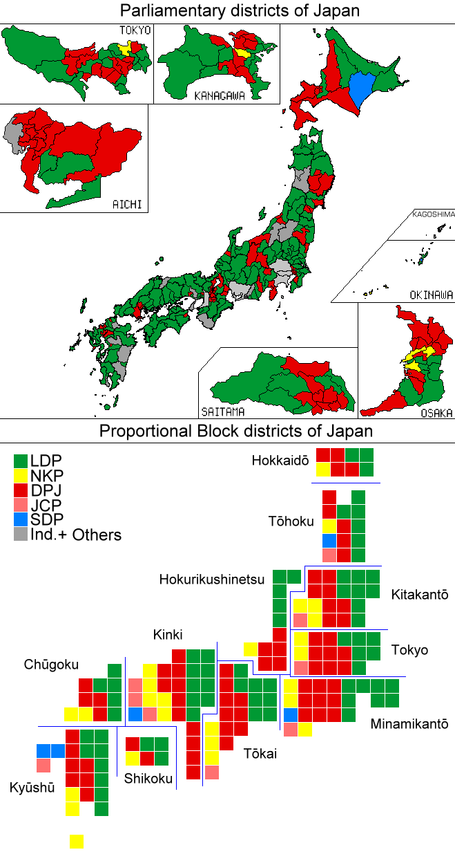 map of seats of Single member of Japanese general election, 2003